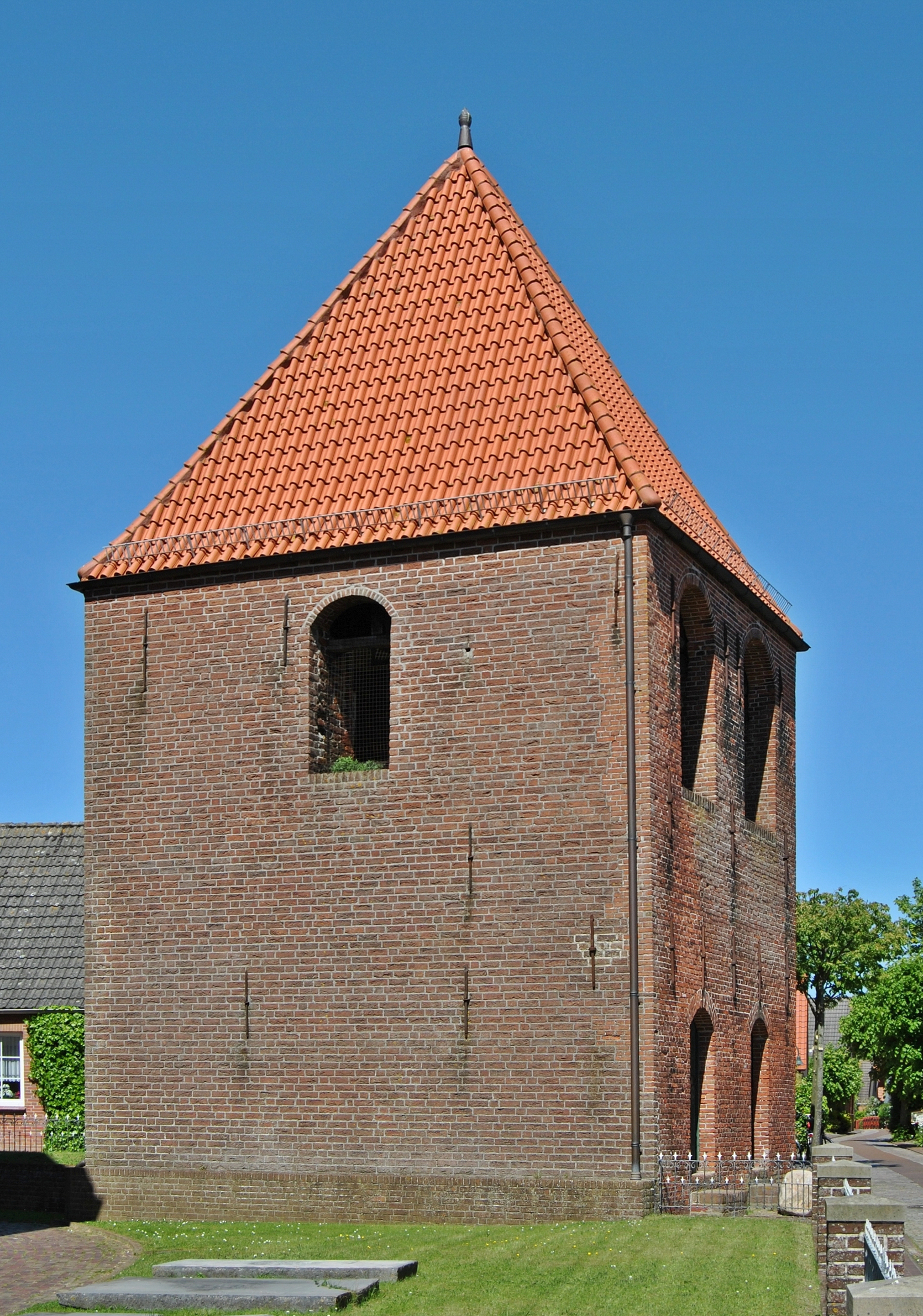 Krummhörn (East Frisia, Lower Saxony, Germany) – district Pilsum – Reformed Saint Stephen Church – medieval bell tower This is a photograph of an architectural monument. This photograph was taken with a Nikon D3000